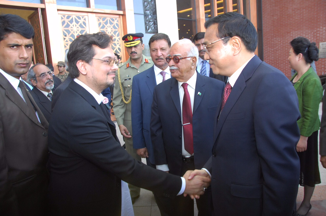 Shahzada Jamal Nazir With Chinese Premier